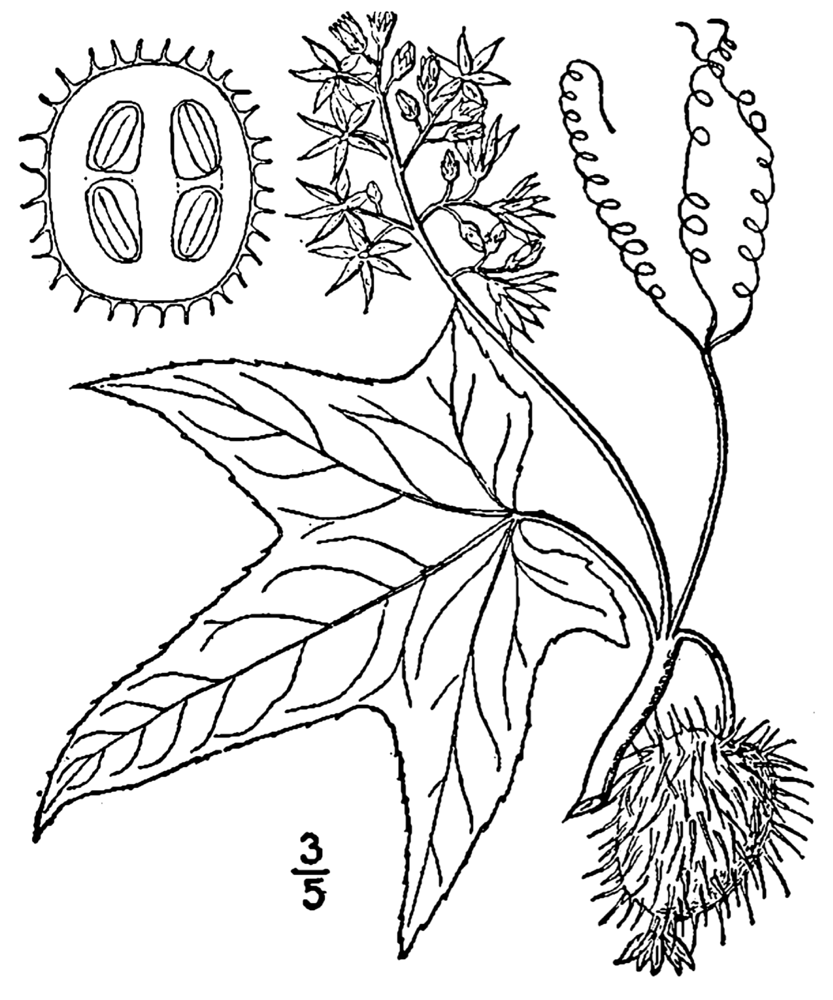 Echinocystis lobata